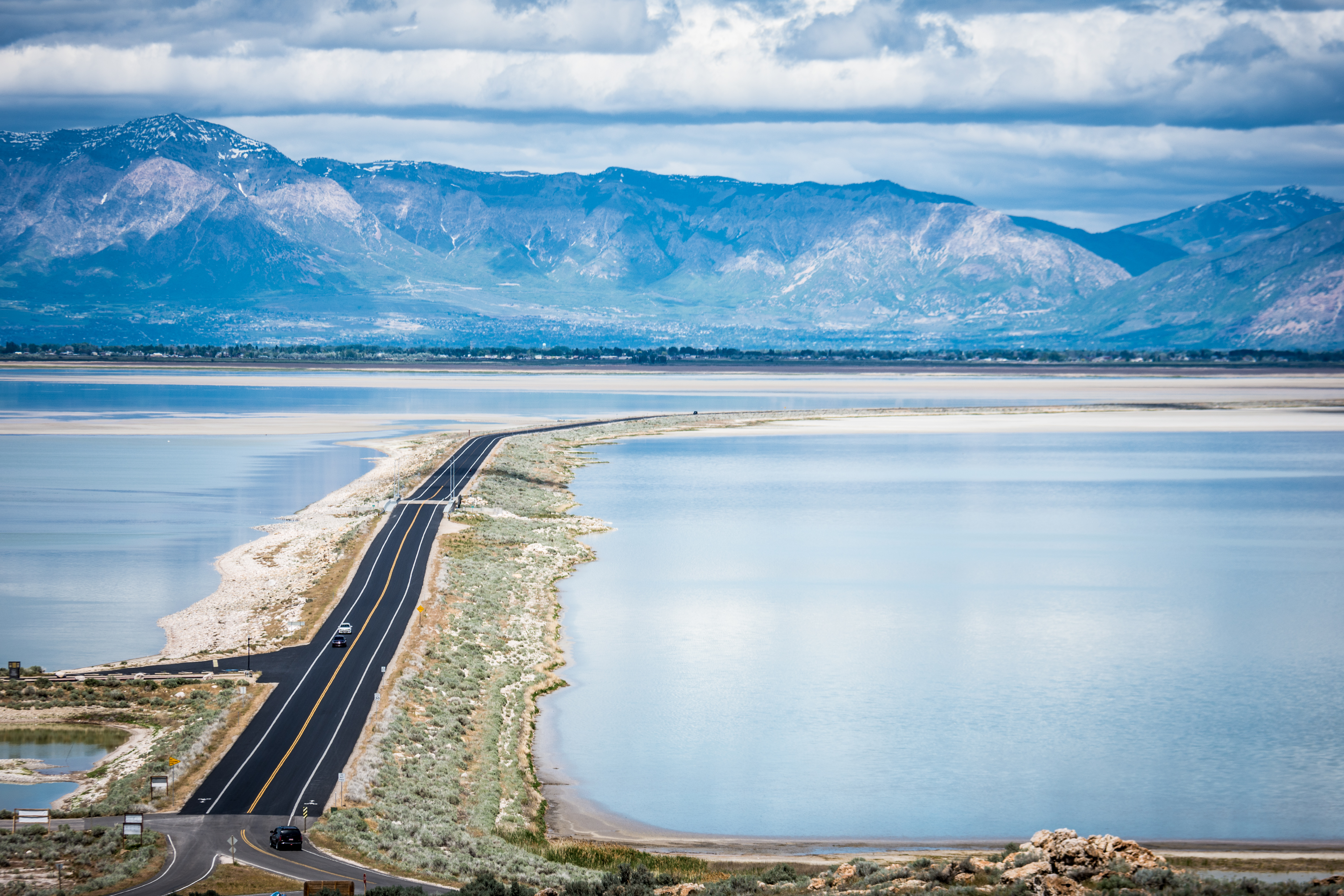 Lovely view of the road leading into Antelope Island State Park Utah